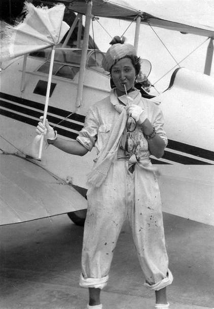 Mari Pepa Colomer poses at the Canudas Aerodrome as Mary Poppins in recreated a jump she took at 7 years old, holding an umbrella handle, from the second floor of her house. This image was taken in c. 1934, but published after the subject's death by the Carreras-Colomer Archive in England in c. 2004. The photographer is unknown.